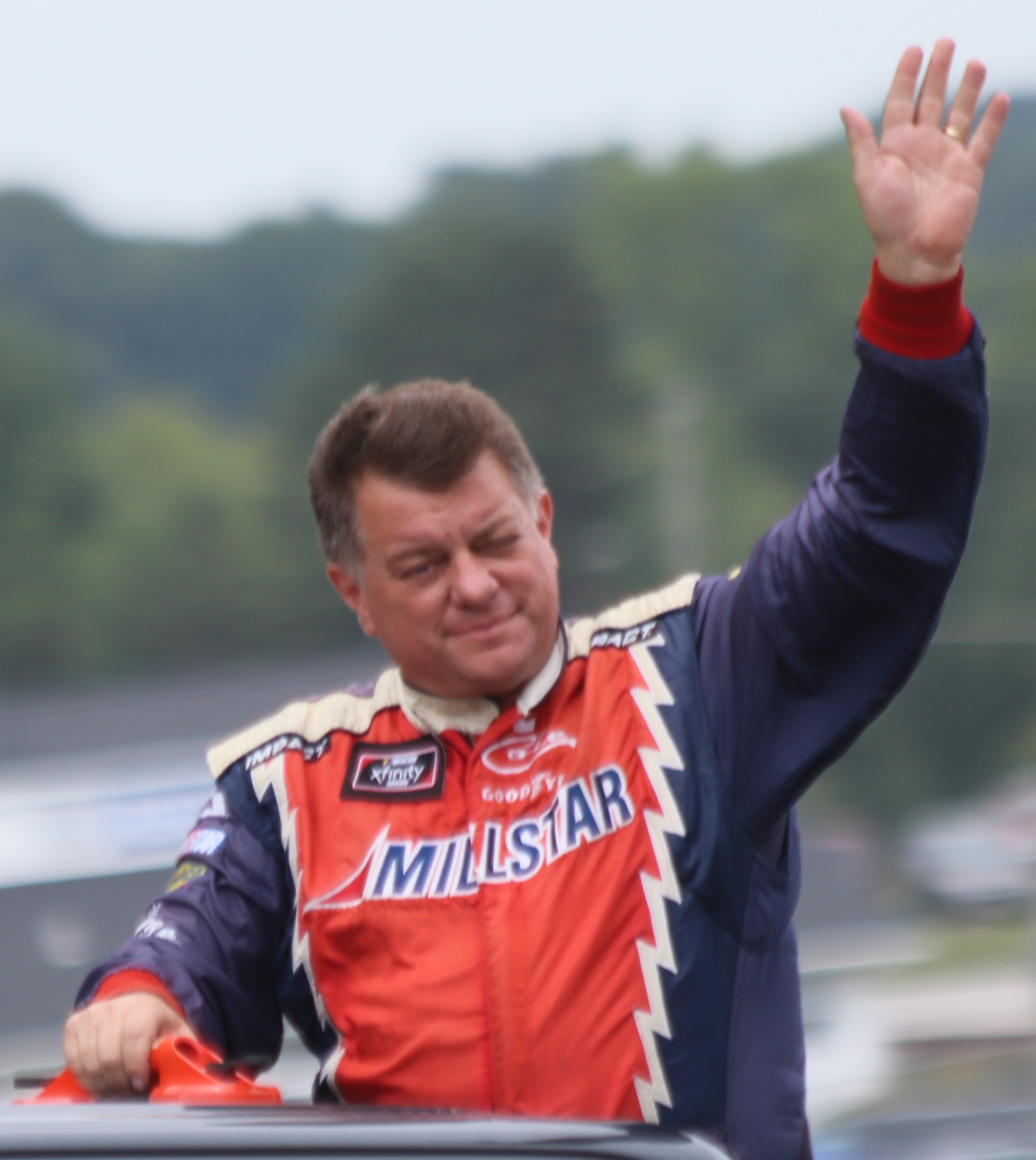 NASCAR Xfinity Series driver Carl Long waves to fans at the 2018 Road America race.